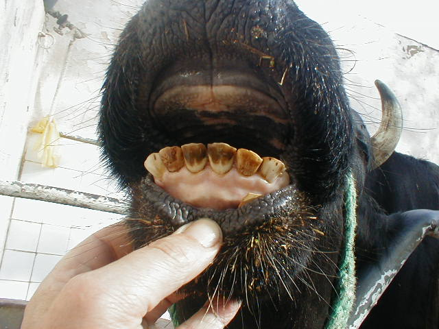 Fluorosis in teeth of a 4-years-old cow, from industrial origin, in Morocco Walon: Fluworôze ås dints d' ene vatche di 4 ans, a cåze des foumires d' oujhenes, å Marok